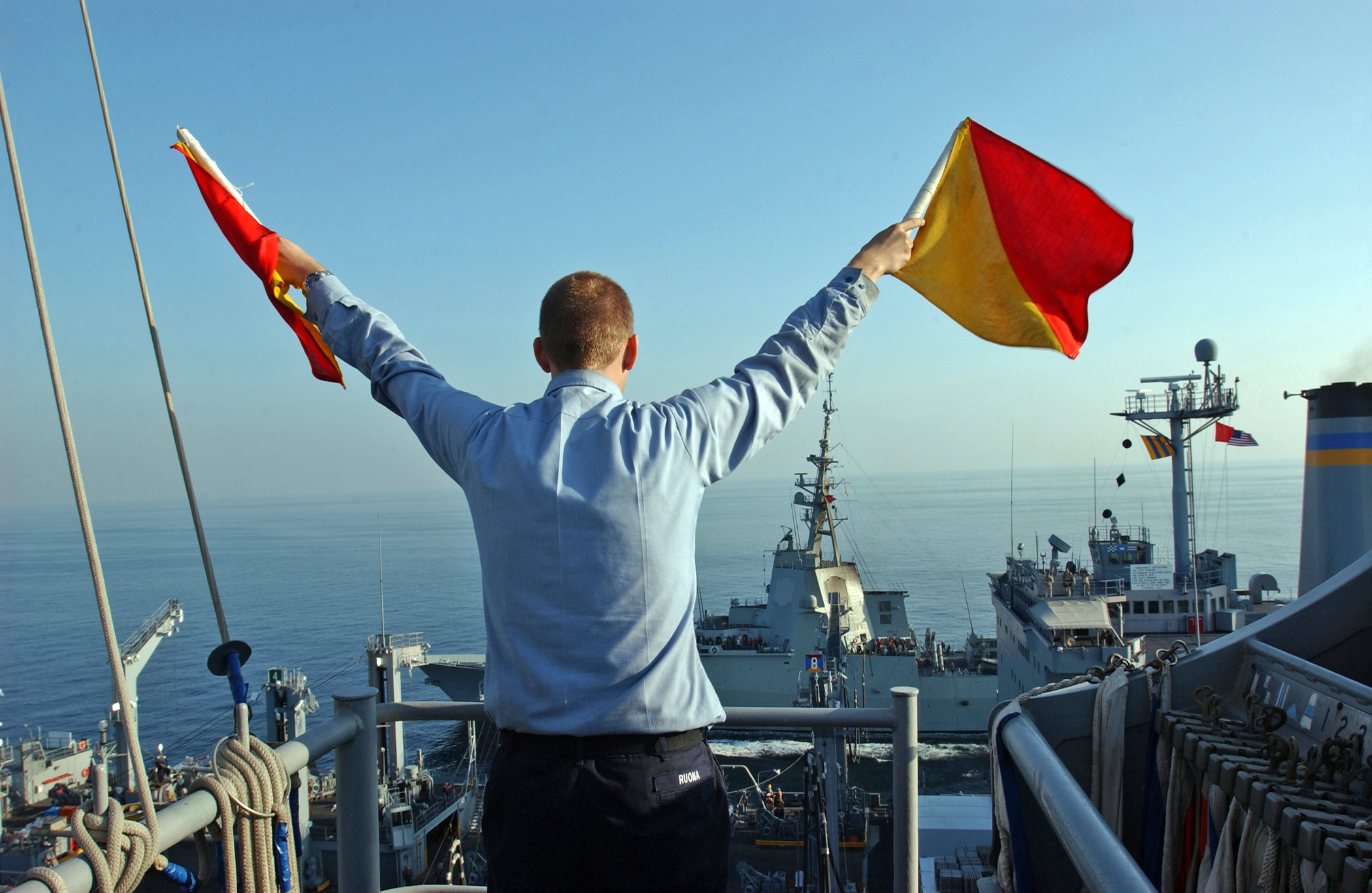 Persian Gulf (Nov. 29, 2005) – Quartermaster Seaman Ryan Ruona signals with semaphore flags during a replenishment at sea aboard the Nimitz-class aircraft carrier USS Theodore Roosevelt (CVN 71). Roosevelt and embarked Carrier Air Wing Eight (CVW-8) are currently underway on a regularly scheduled deployment conducting maritime security operations. U.S. Navy photo by Photographer's Mate Airman Javier Capella (RELEASED)